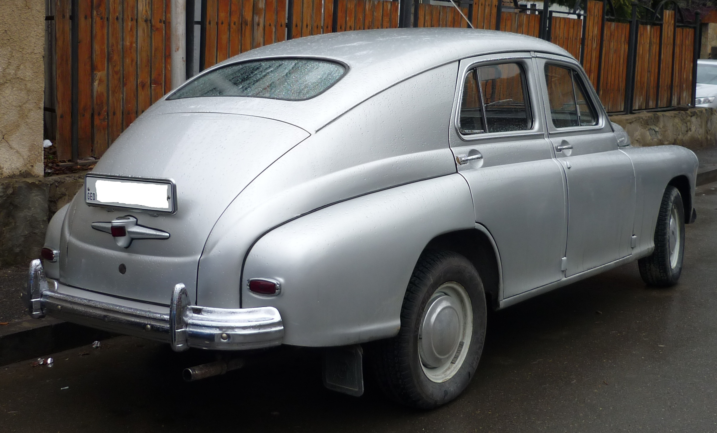 GAZ Pobieda in a street of Mtskheta, Georgia